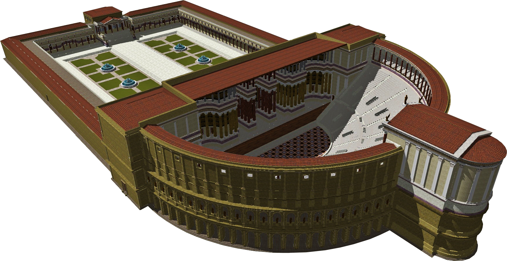 This is a derivative work of a 3D, Computer generated image of the Theatre of Pompey by the model maker, Lasha Tskhondia - L.VII.C.[1]. Variations to the original model include shadows, adjusted for good lighting as well as the file being adjusted for color and contrast.